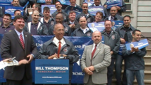 Local 2507, Uniformed EMS, Paramedics, Local 3621, EMS Officers , and Fire Inspectors Endorse Bill Thompson